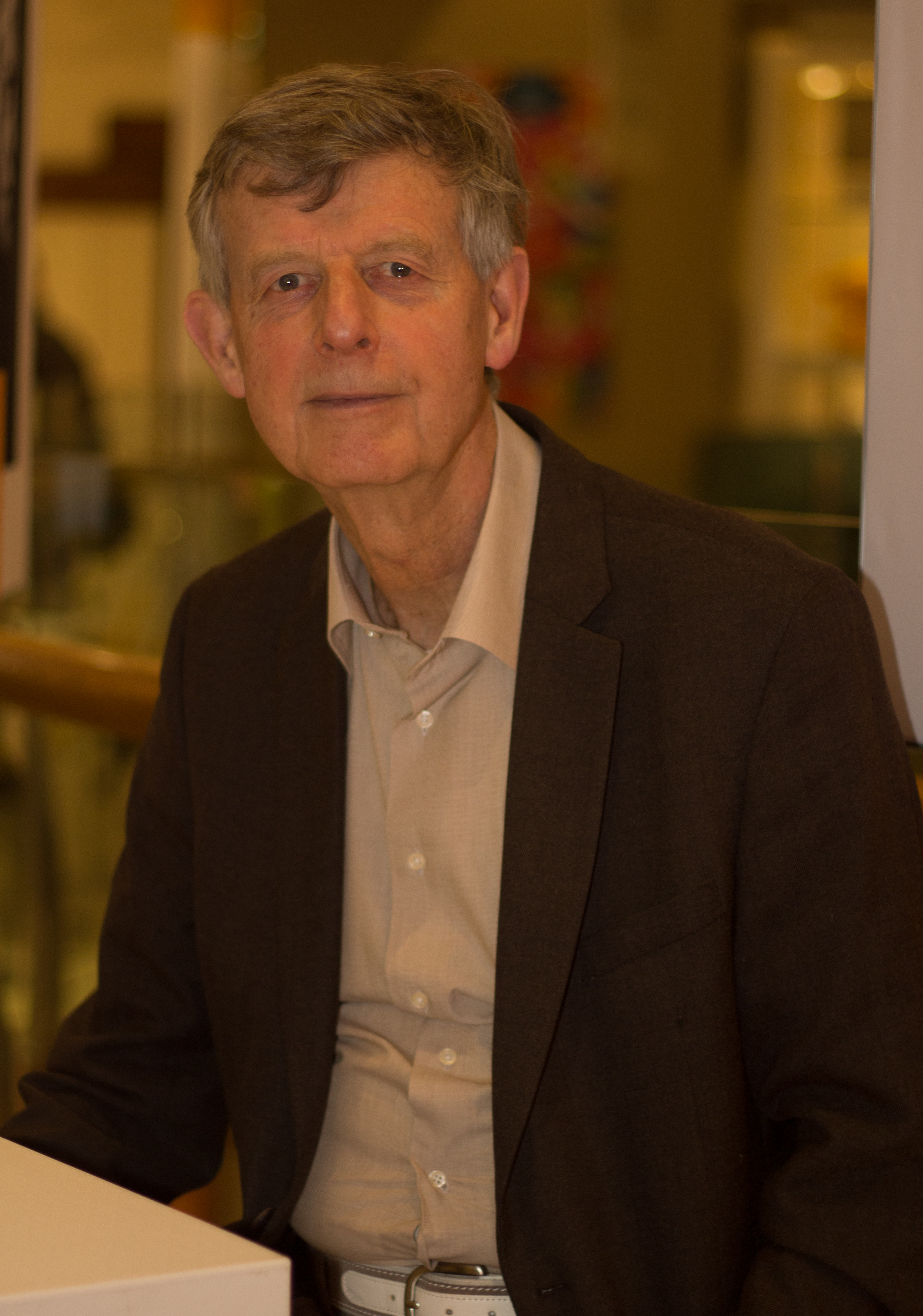 Feest der Letteren 2016